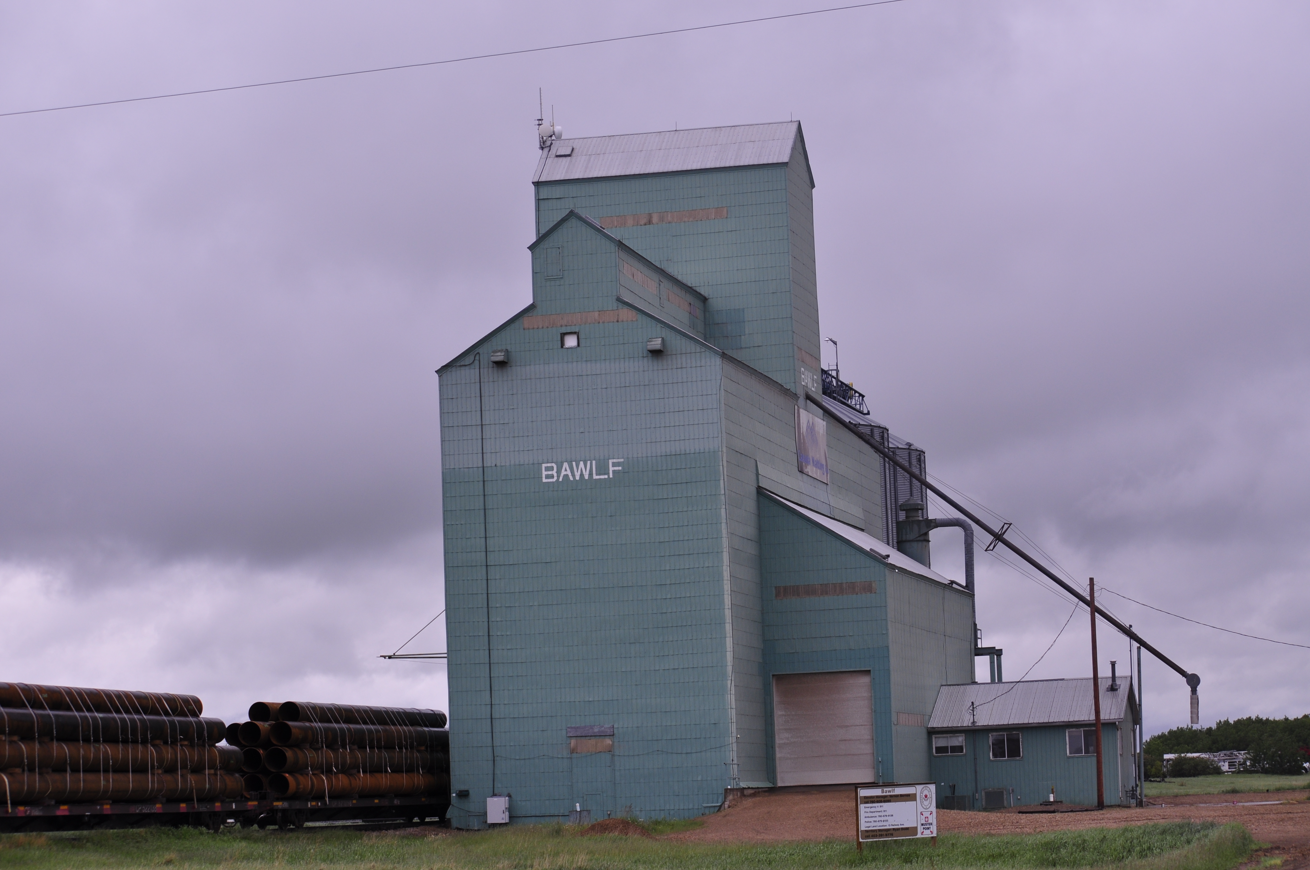 Grain elevator at Bawlf, Alberta on the side of Alberta Hwy 13